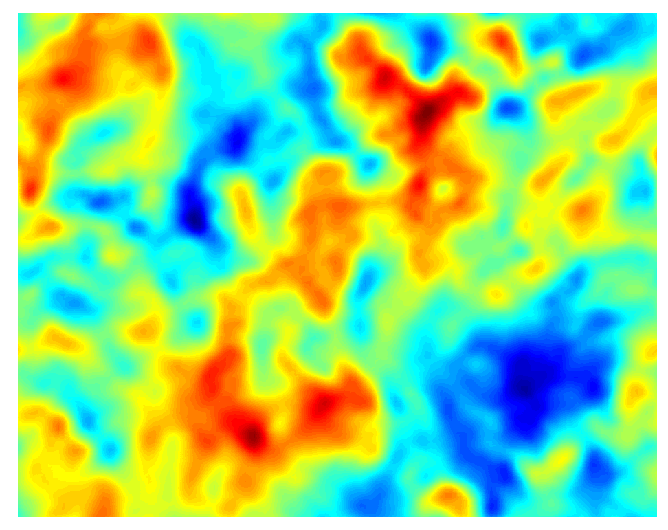 Filtered velocity from a DNS simulation of homogeneous decaying turbulence in a periodic box. Velocity field is filtered using a box filter. DNS data is from Lu and Rutland.[1] ↑ Lu, Hao (2008). "A priori tests of one-equation LES modeling of rotating turbulence". International Journal of Modern Physics C 19 (2): 1949-1964.